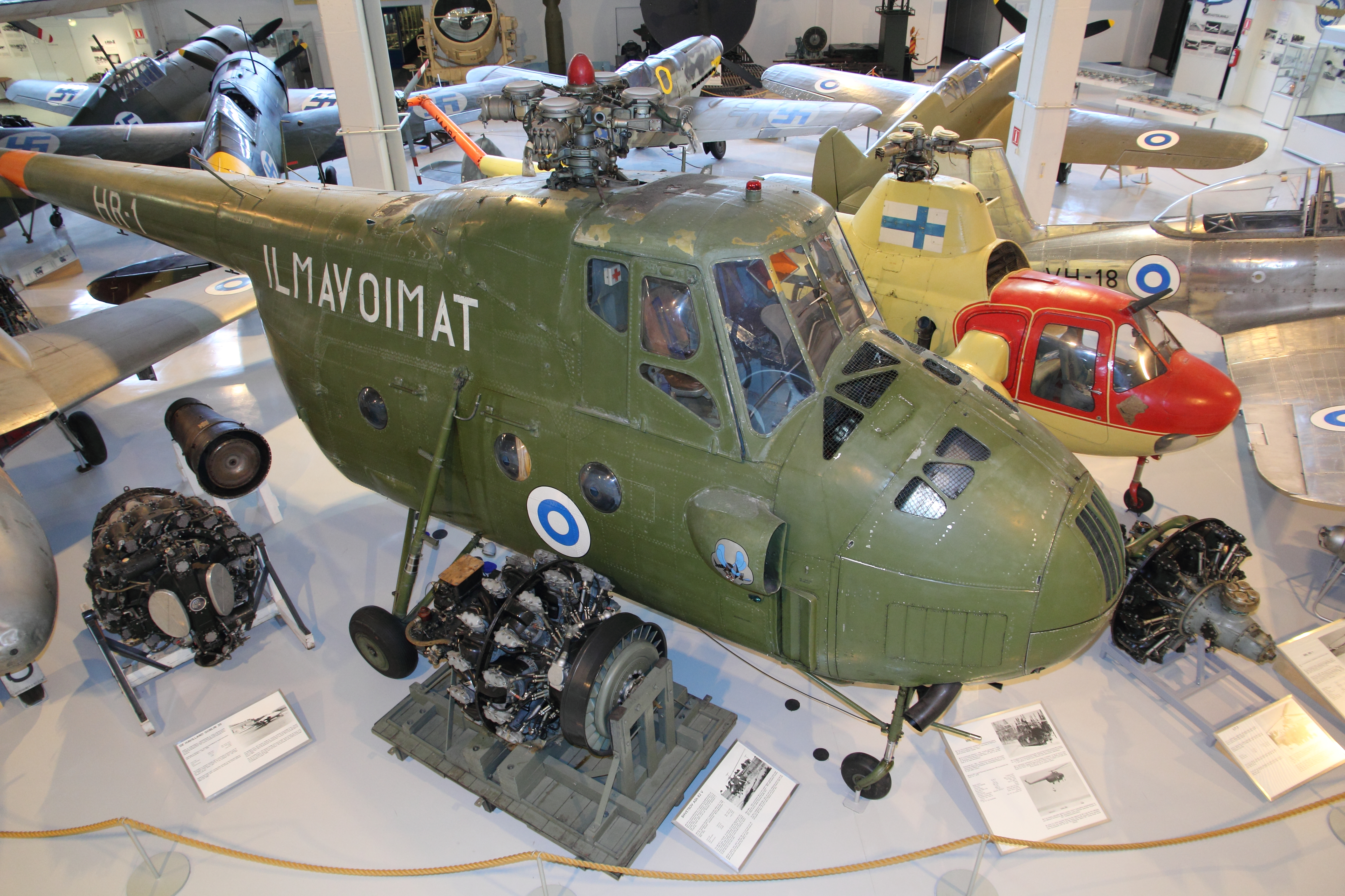 Mil Mi-4 helicopter (HR-1) in the Aviation Museum of Central Finland.